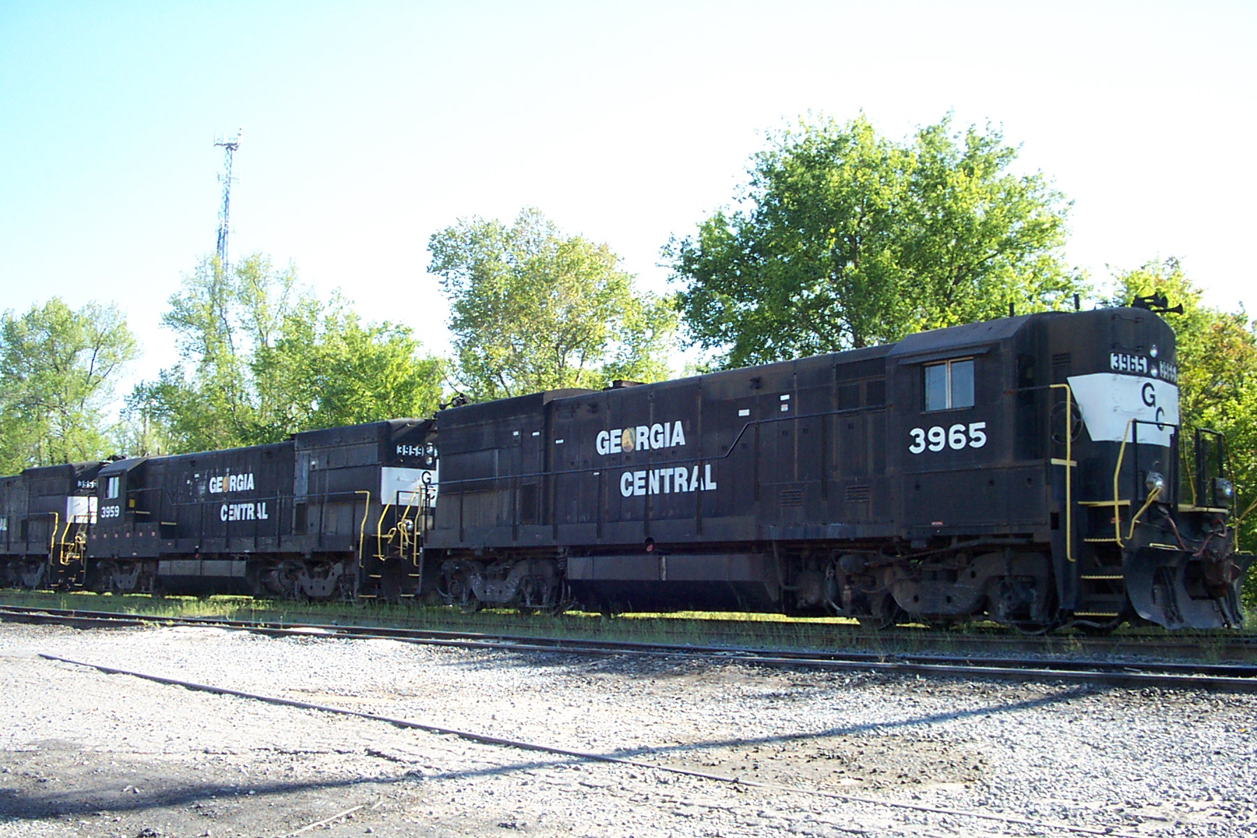 Georgia Central Railway U23Bs wait for their next run in the old Seaboard Air Line yard in Macon, Georgia.